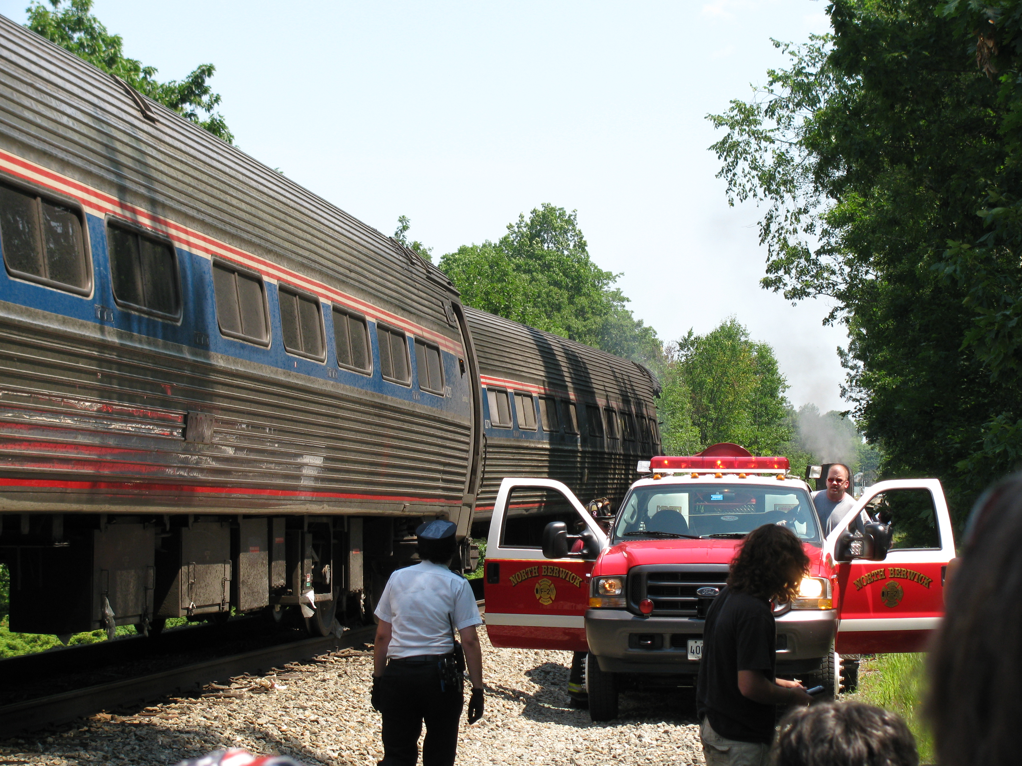 Damaged Amfleet cars next to first responders after a July 2011 collision where a trash truck ran through crossing gates into the path of a Downeaster train.